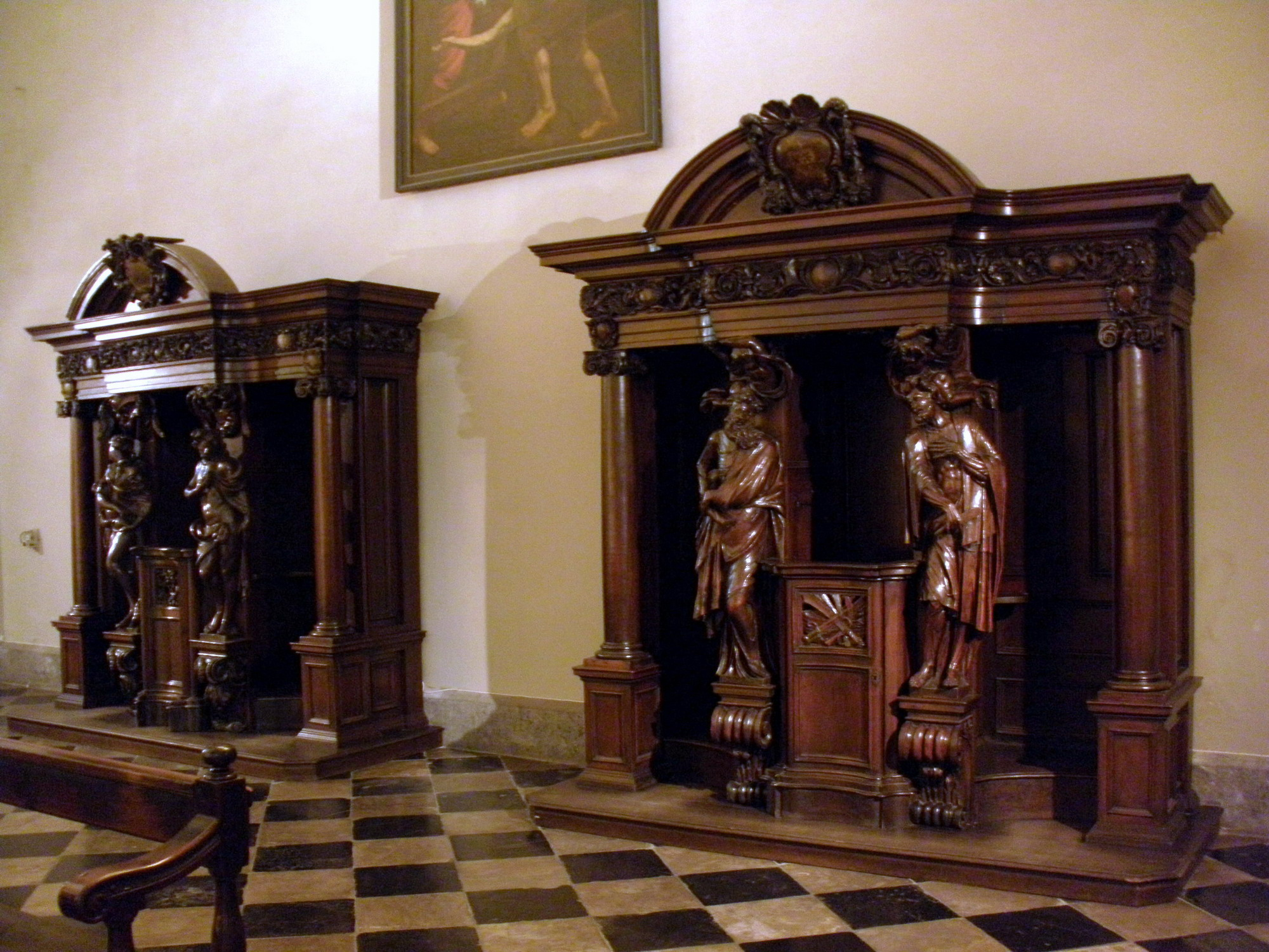 Two confessionals (17th c.) in the South transept of the Basilica of Saint Servatius, Maastricht, the Netherlands, work of Daniel van Vlierden from Hasselt.